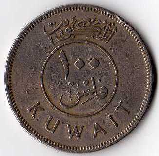 100 Kuwaiti fils minted in 1971 - obverse 100 kuwejckich filsów z 1971 r. - awers